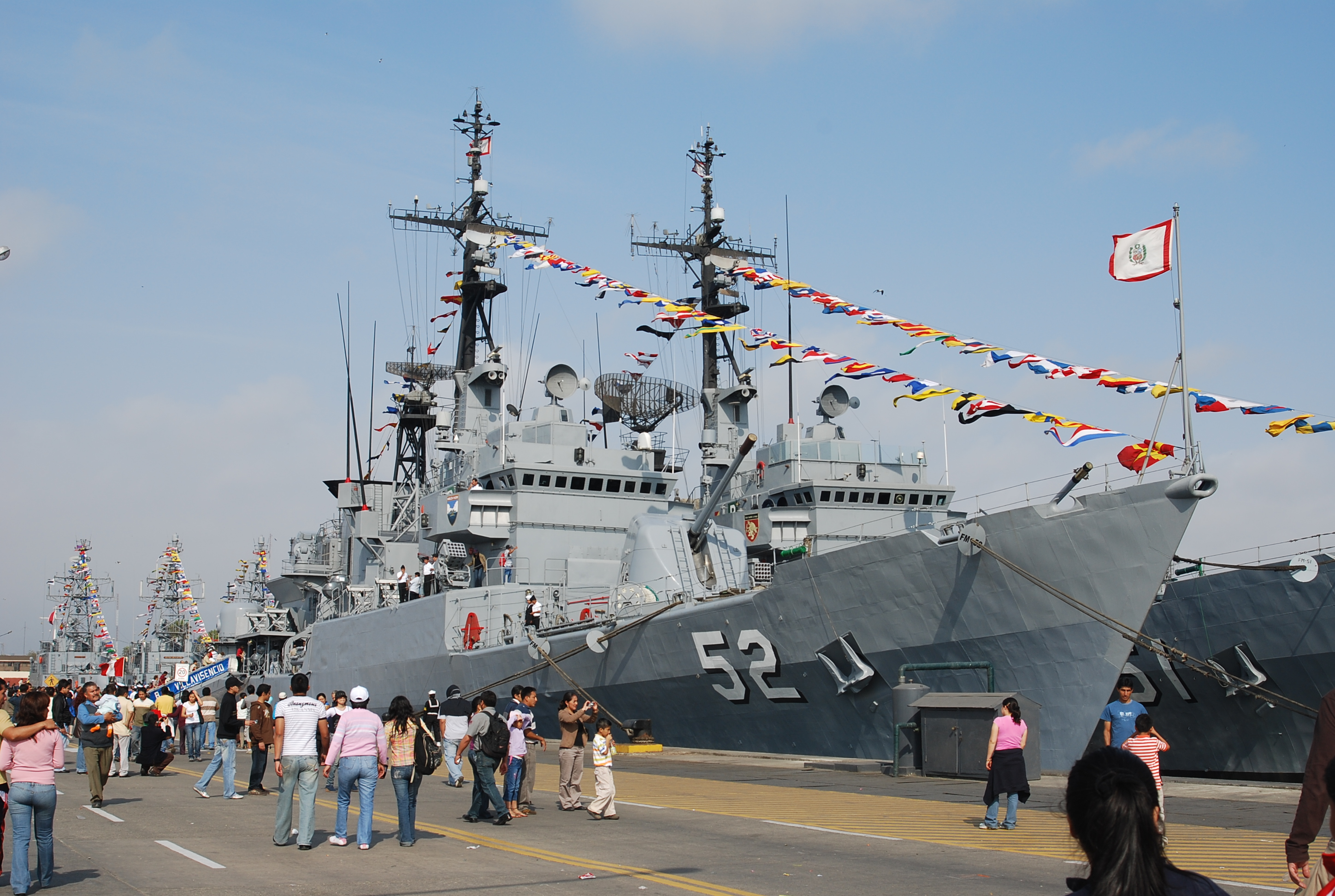 The Peruvian Naval ship BAP Villavicencio